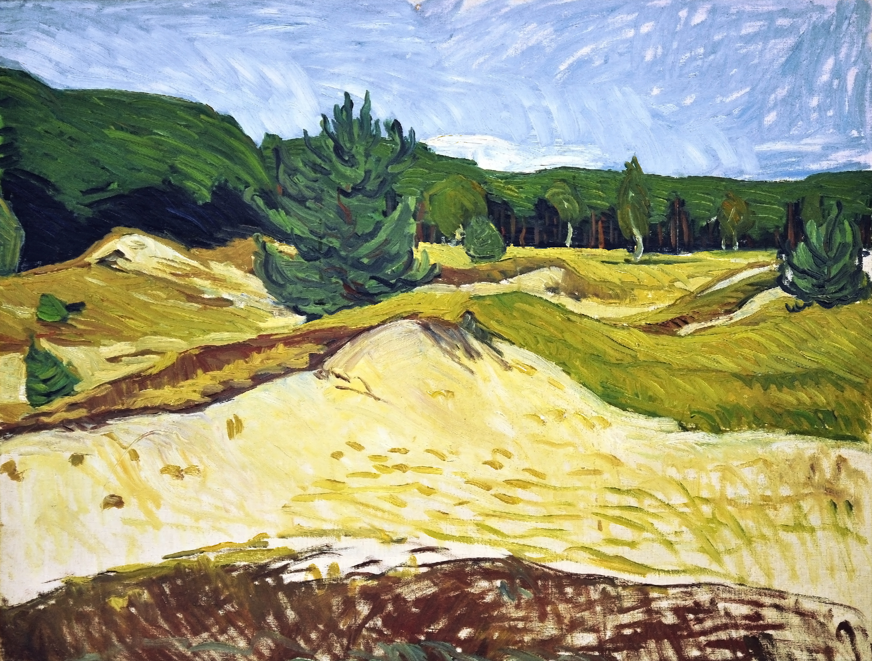 August Haake painted "In the Surheide" over a period of 1911-1914 in Fischerhude near Bremen.